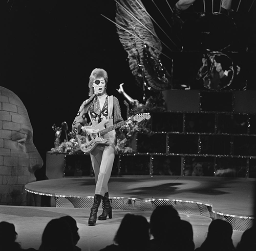 David Bowie, shooting his video for Rebel Rebel in AVRO's TopPop (Dutch television show) in 1974